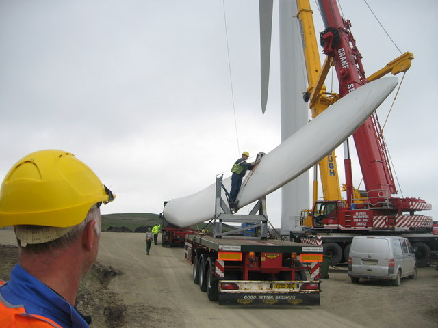 Last Turbine Blade Delivery at Turbine No 23. Site construction manager Martin Hewitt looks on as 6 months of construction comes to an end with the delivery of the final turbine blade for the Scout Moor Wind Farm project. Construction of the wind turbines began back in November 2007 at Turbine No 16. By June 2008 engineers had constructed 26 wind turbine towers and installed 78 turbine blades 450 metres above sea level on Scout Moor amid adverse weather conditions of thick fog,gale force winds,torrential rain,snow and ice during the winter months of 2008. 837169 837208 833206 824546 687214 696211 Turbine details: Tower Height: 60m Blade Length: 40m Total Max Height: 100m Manufacturer: Nordex Model: N80